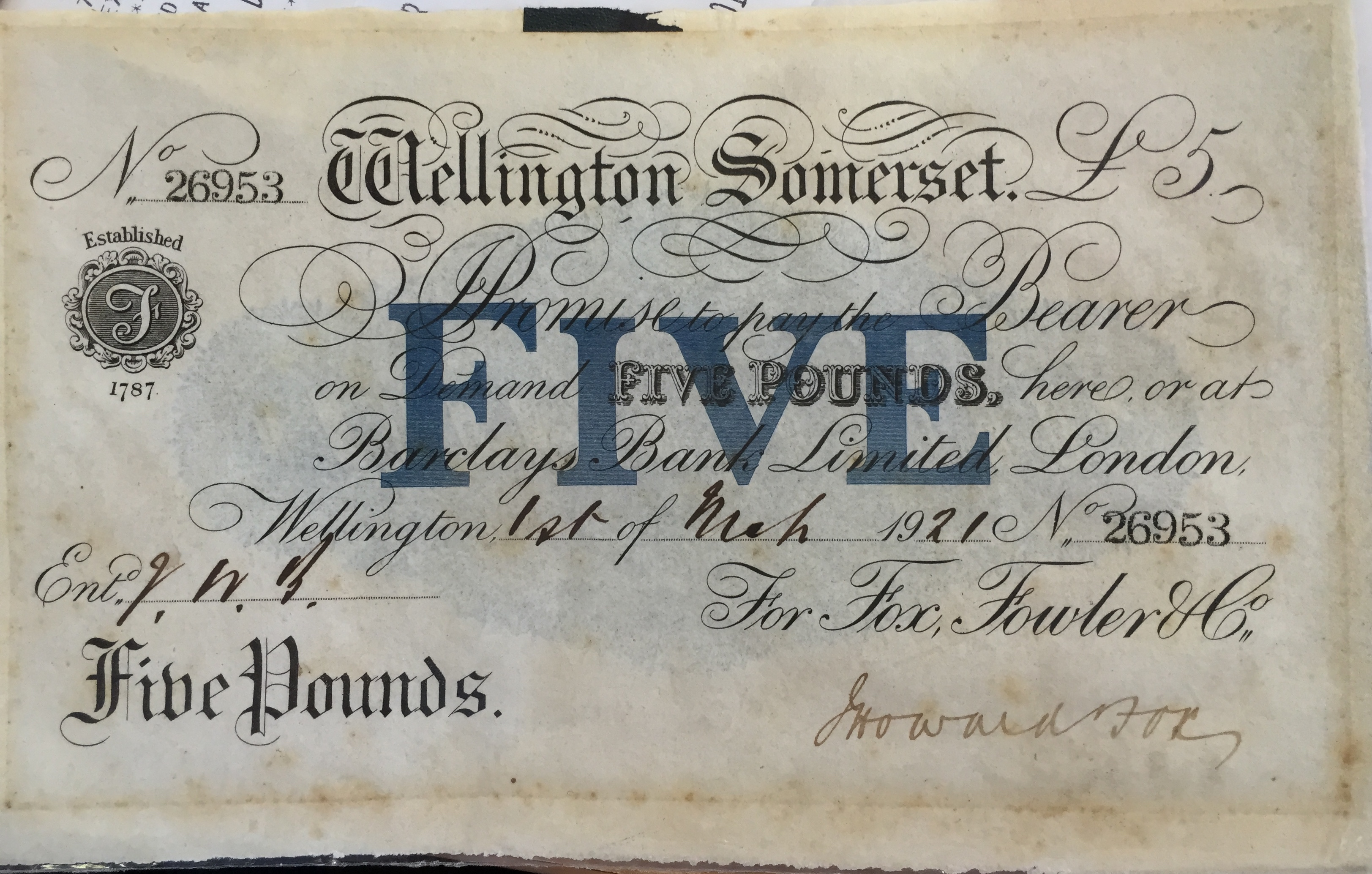 Fox, Fowler & Co £5 Note signed by Howard Fox March 1st 1921. Serial No. 26593. Uncancelled.